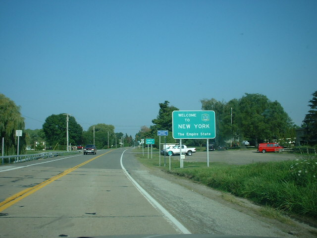 Approaching the New York – Pennsylvania border on Pennsylvania Route 5 eastbound. The road becomes New York State Route 5 at the state line. Clearly visible here are the first reference and reassurance markers on NY 5 eastbound.